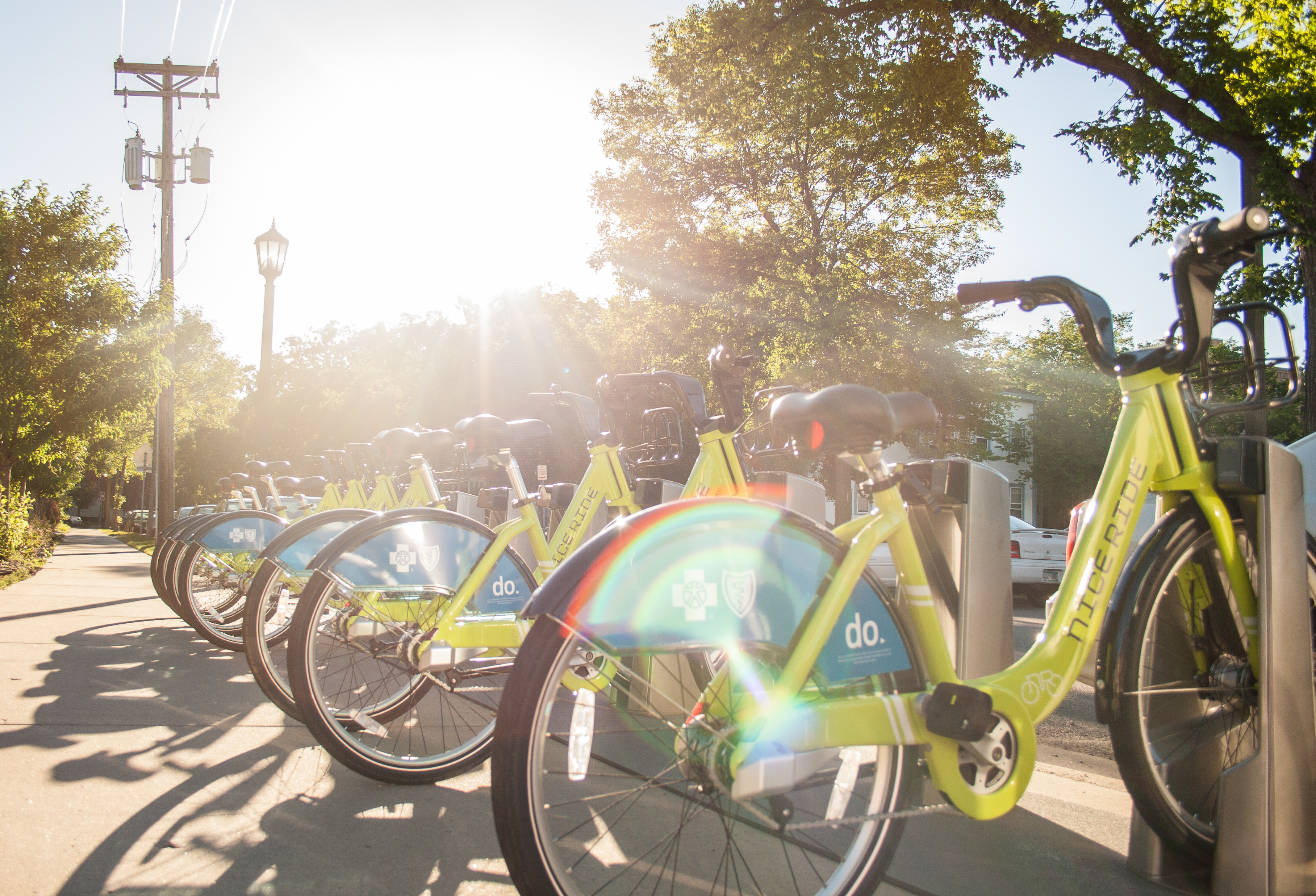 Nice Ride Minnesota bikes at 26th & Hennepin in Uptown Minneapolis